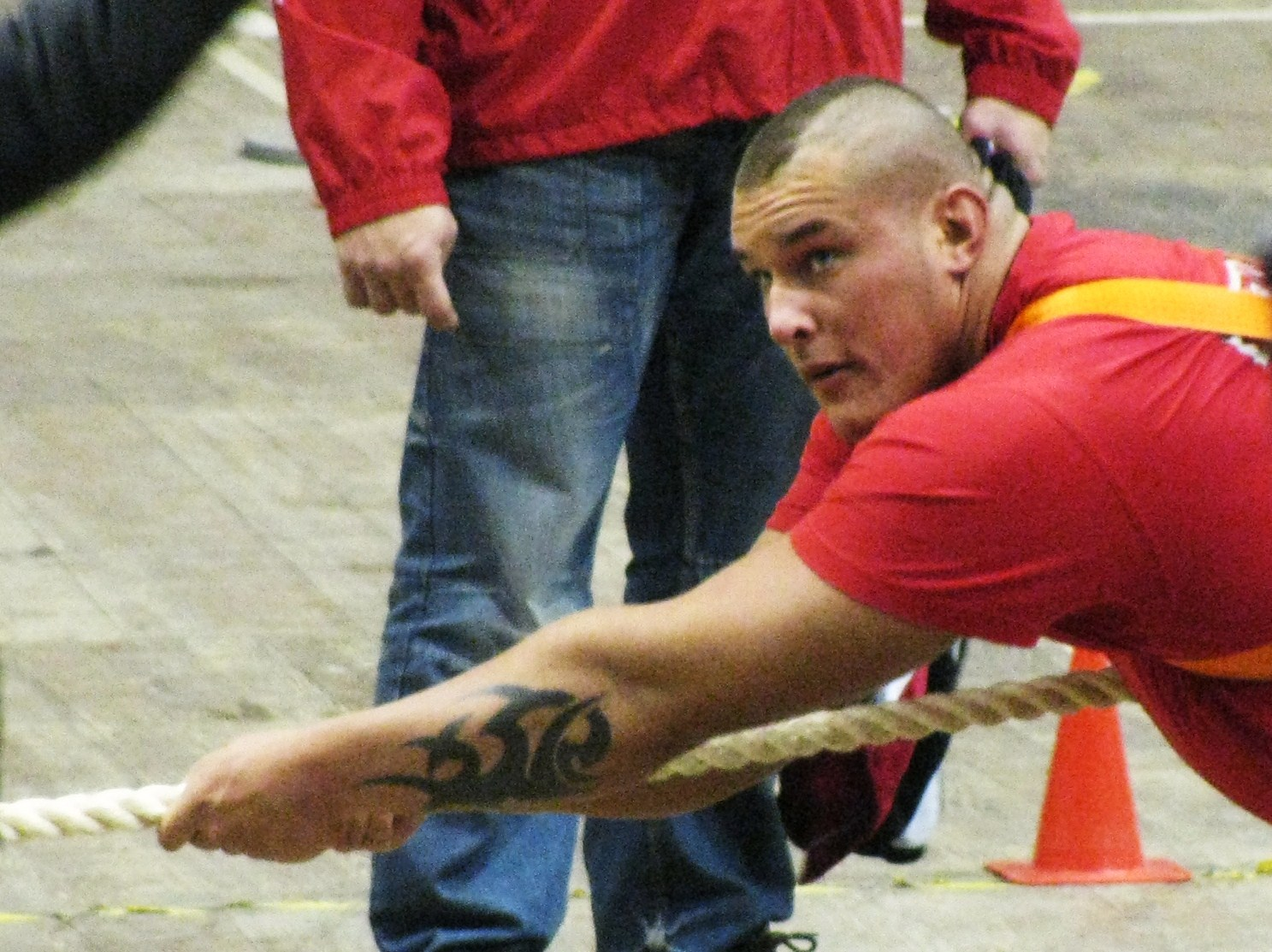 Mateusz Baron - a strength athlete from Poland at the Truck Pull.